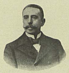 Joaquim Ferreira de Pina Calado (1853-1922), Civil Governor of Porto in 1899.